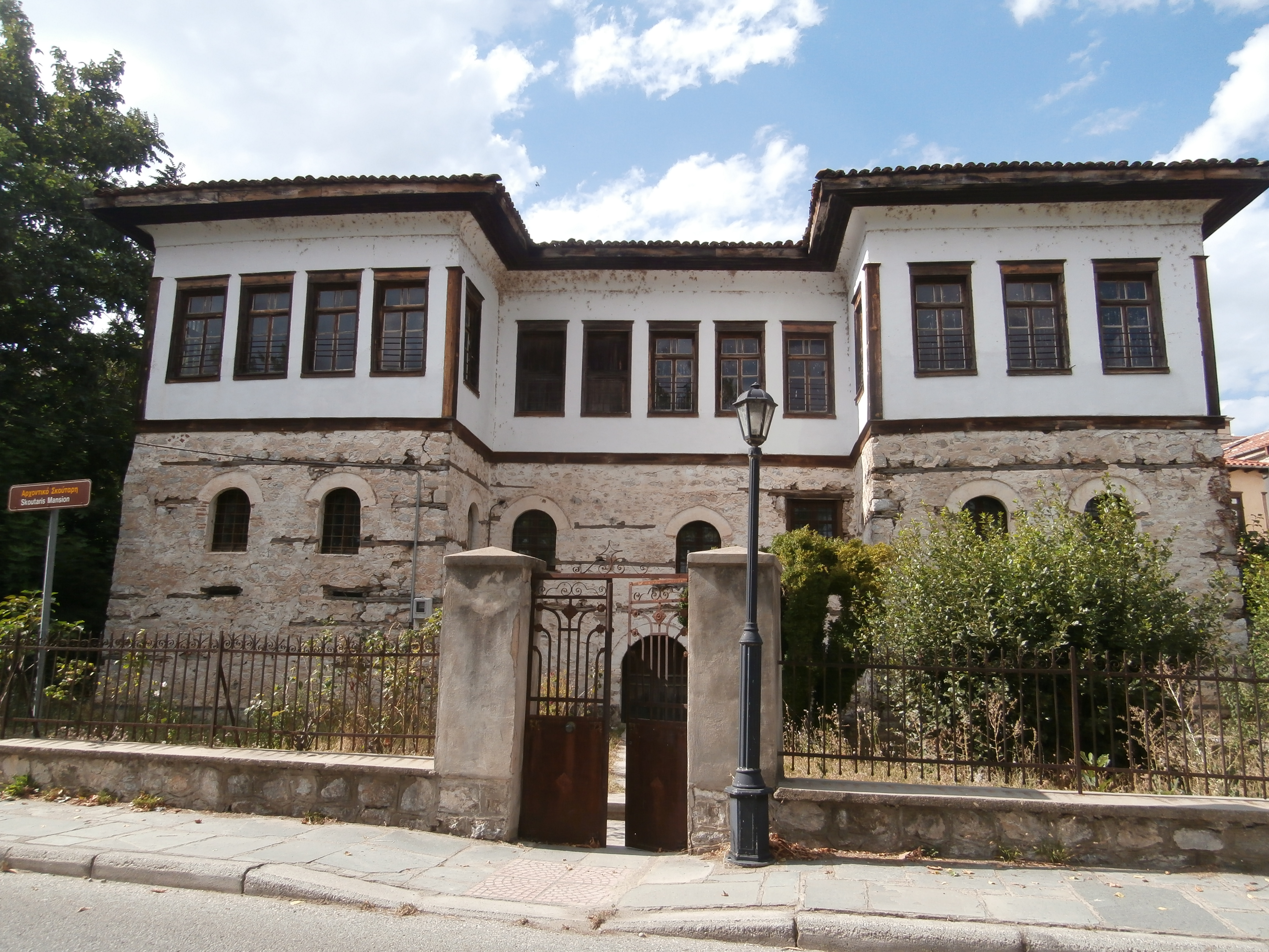 Skoutaris mansion, Kastoria